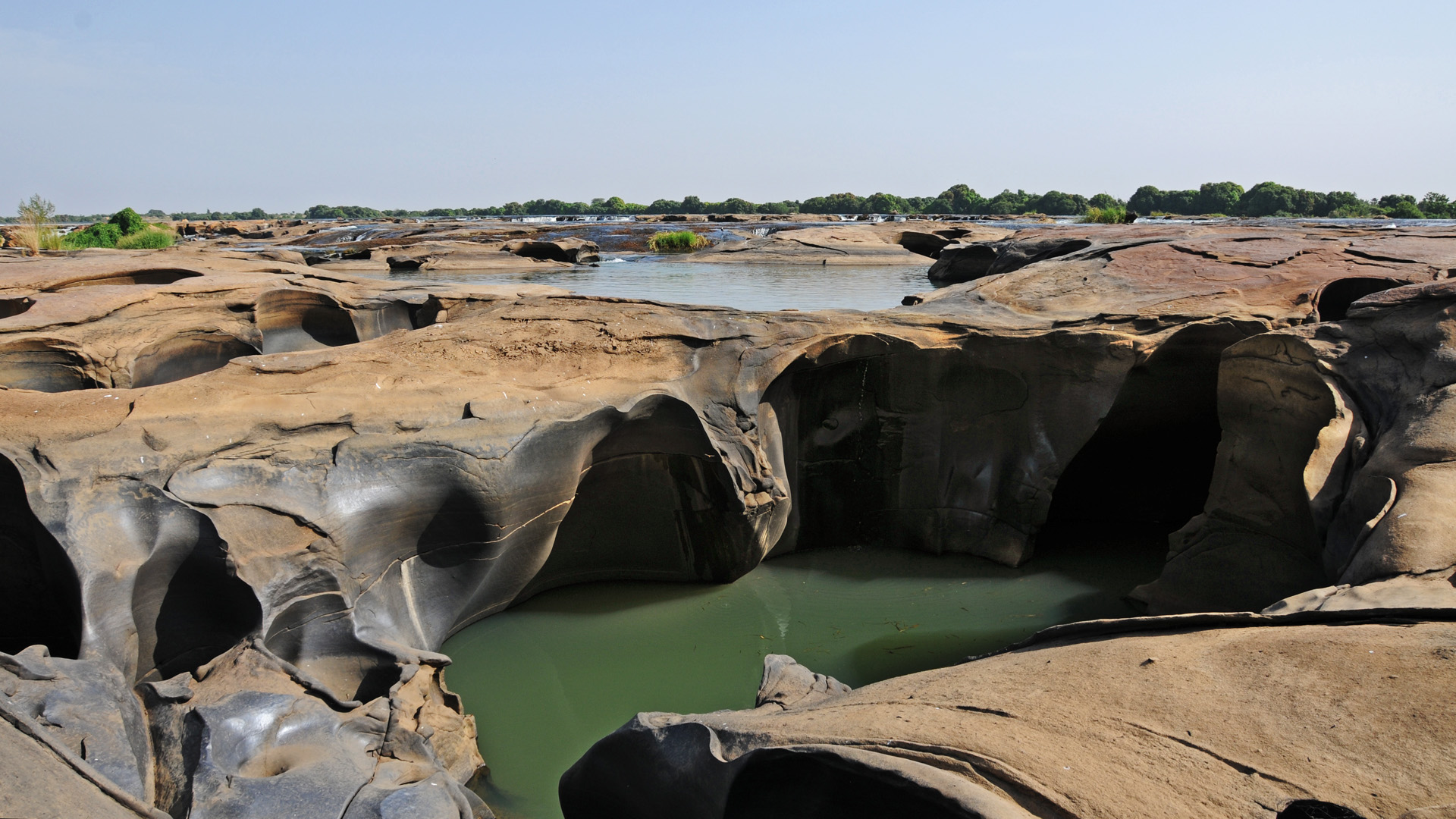 Felou falls